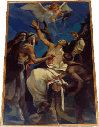 Martyrdom of Marcos Criado, trinitarian friar